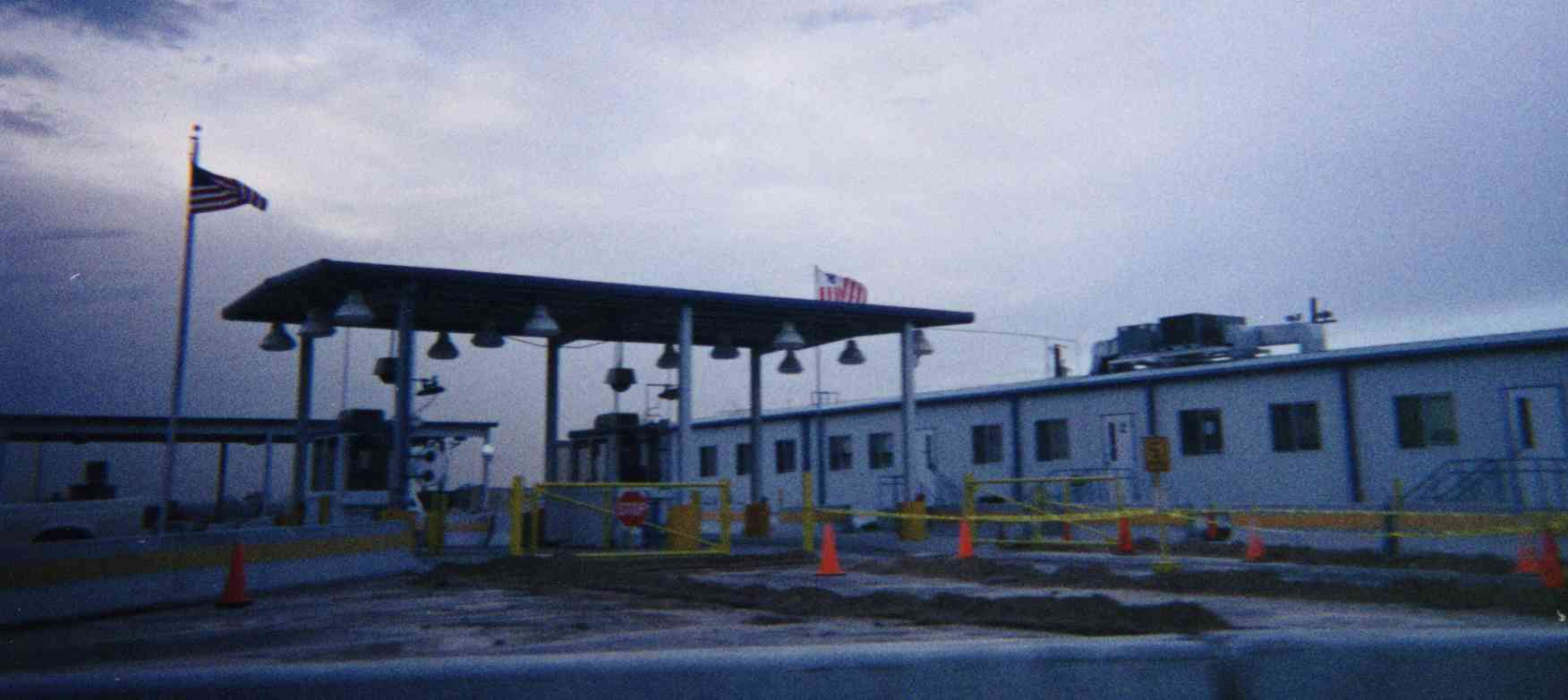 Fabens Texas port of entry, October, 1999